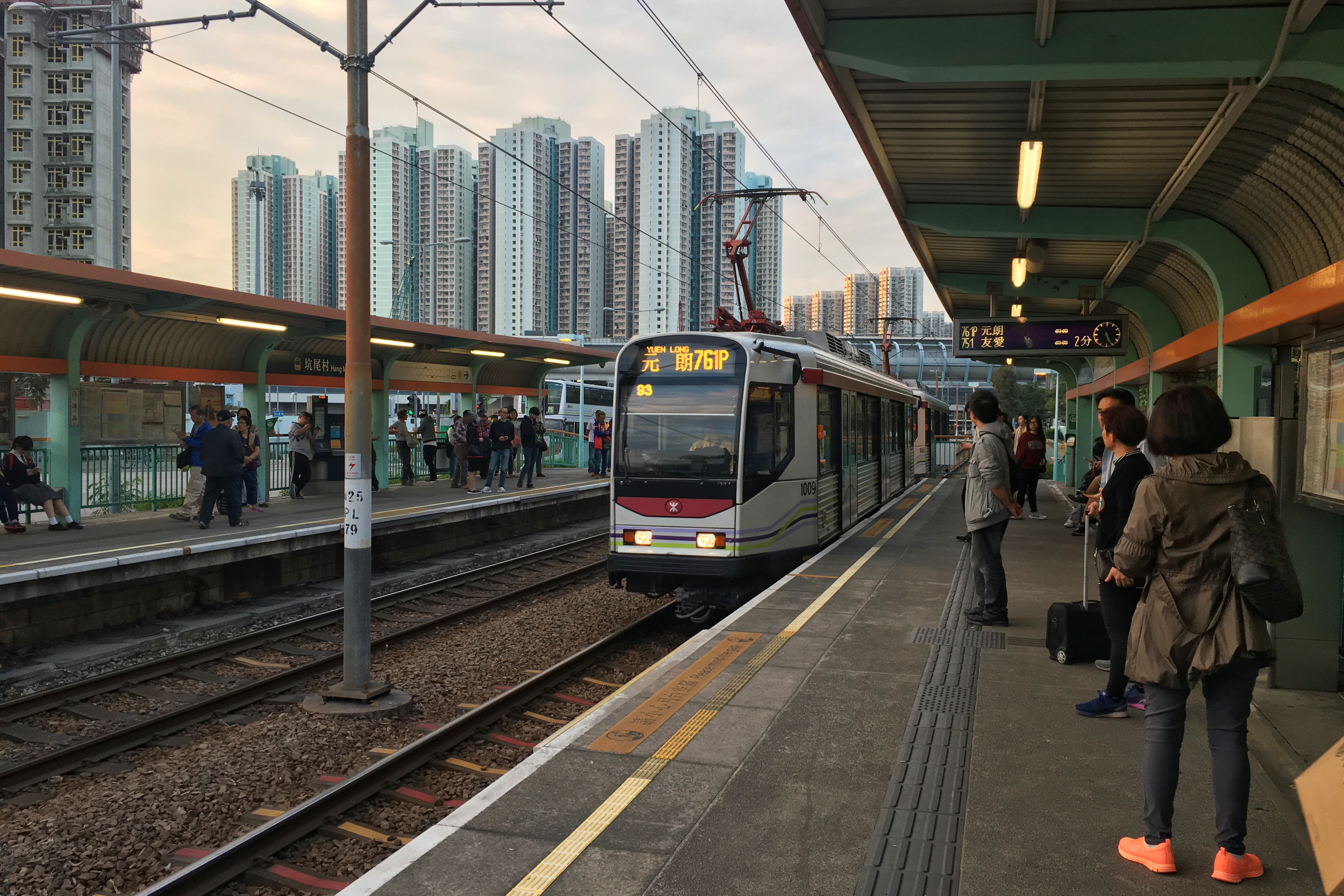 LRT 761P at Hang Mei Tsuen Station